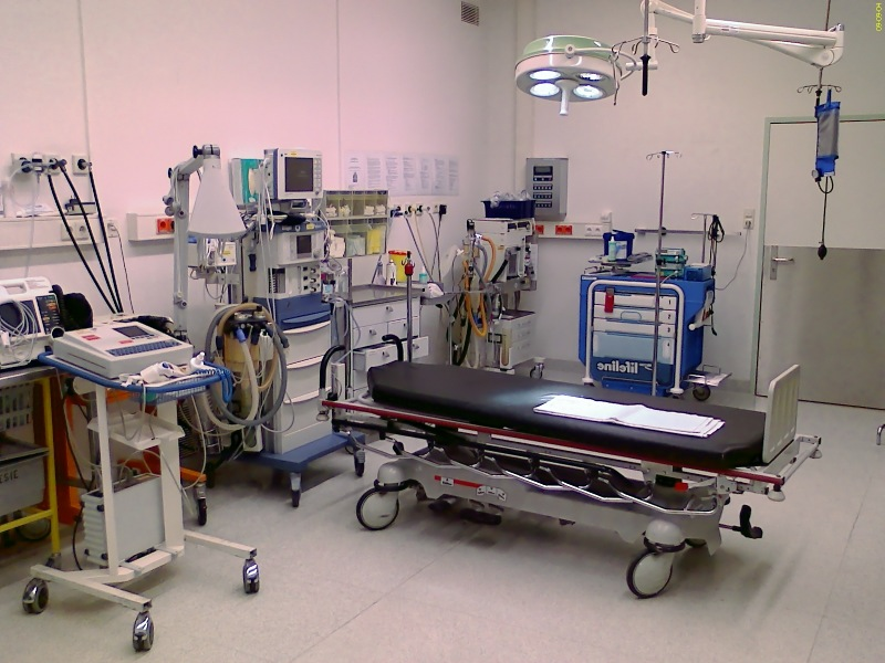 The Trauma Room in the E.R. of the University Hospital in Mannheim (Germany). It's shown in idle state. When a patient is expected, additional equipment like an ultrasonic machine and a mobile x-ray are rolled in. The anaesthetics department will bring a lot of extra equipment too.